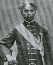 Gate Mudaliyar in full uniform.